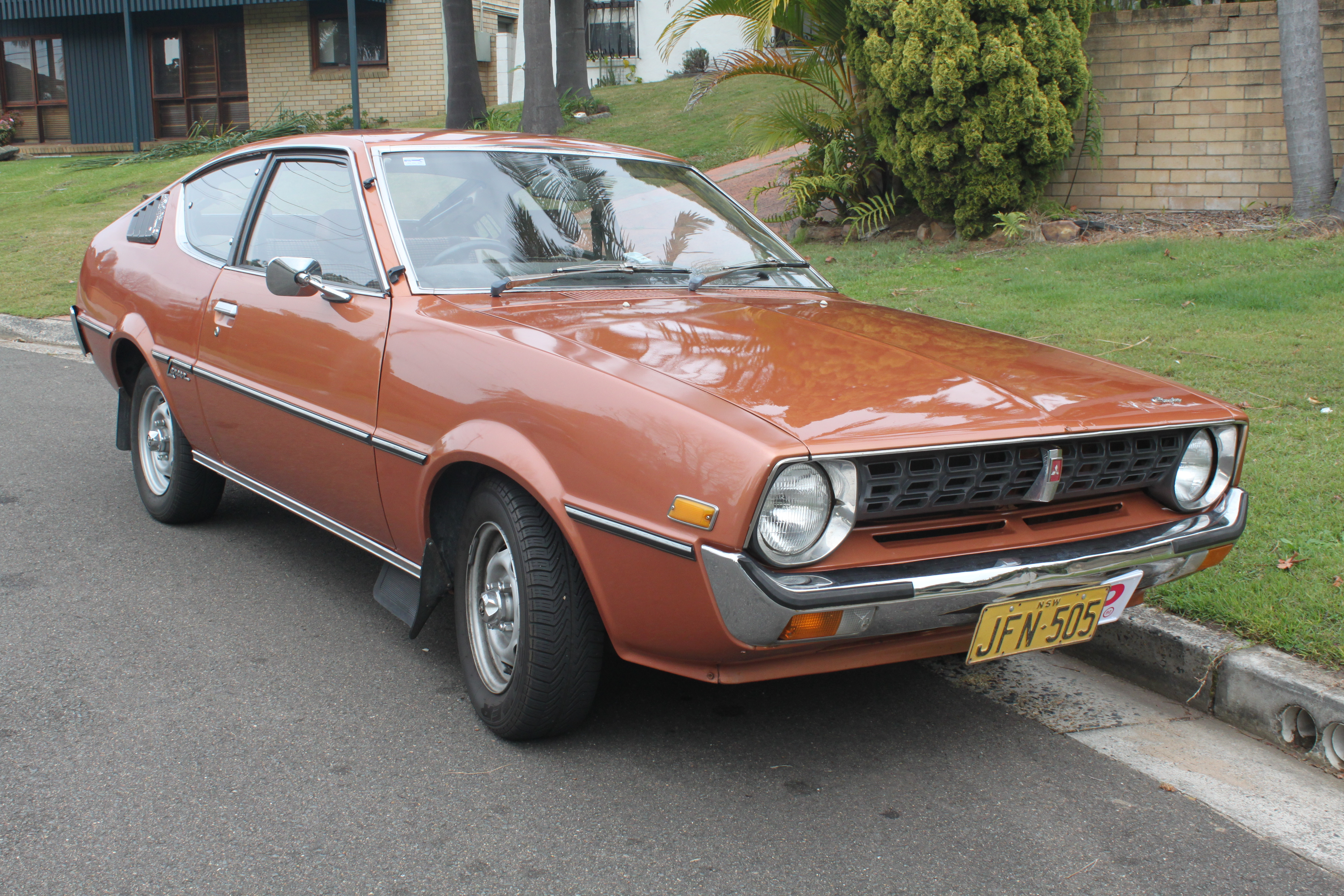 Chrysler Lancer LB GL Liftback